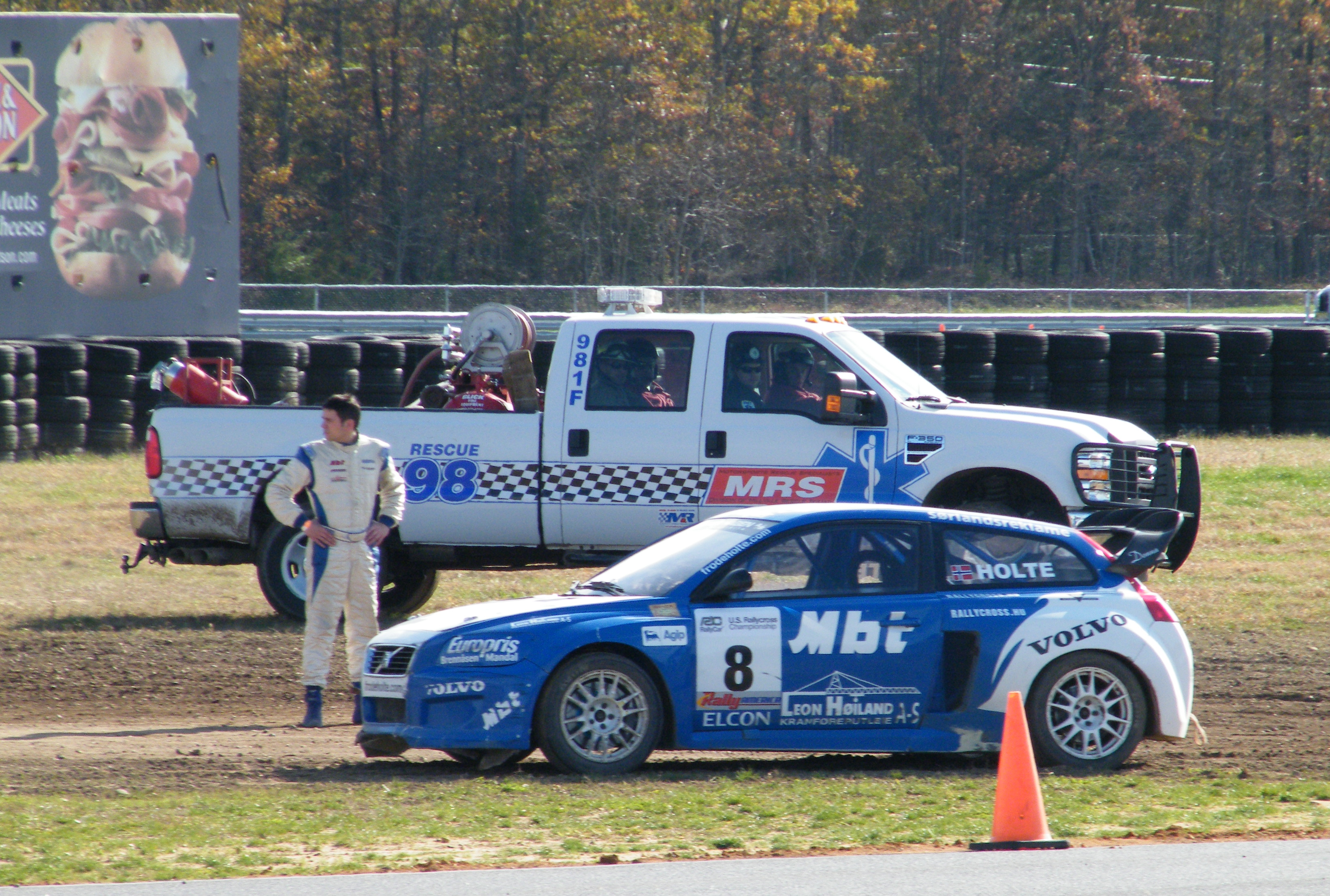 Frode Holte standing next to his Volvo C30 at Round 3 of the 2010 U.S. RallyCar Rallycross Series at New Jersey Motorsports Park.